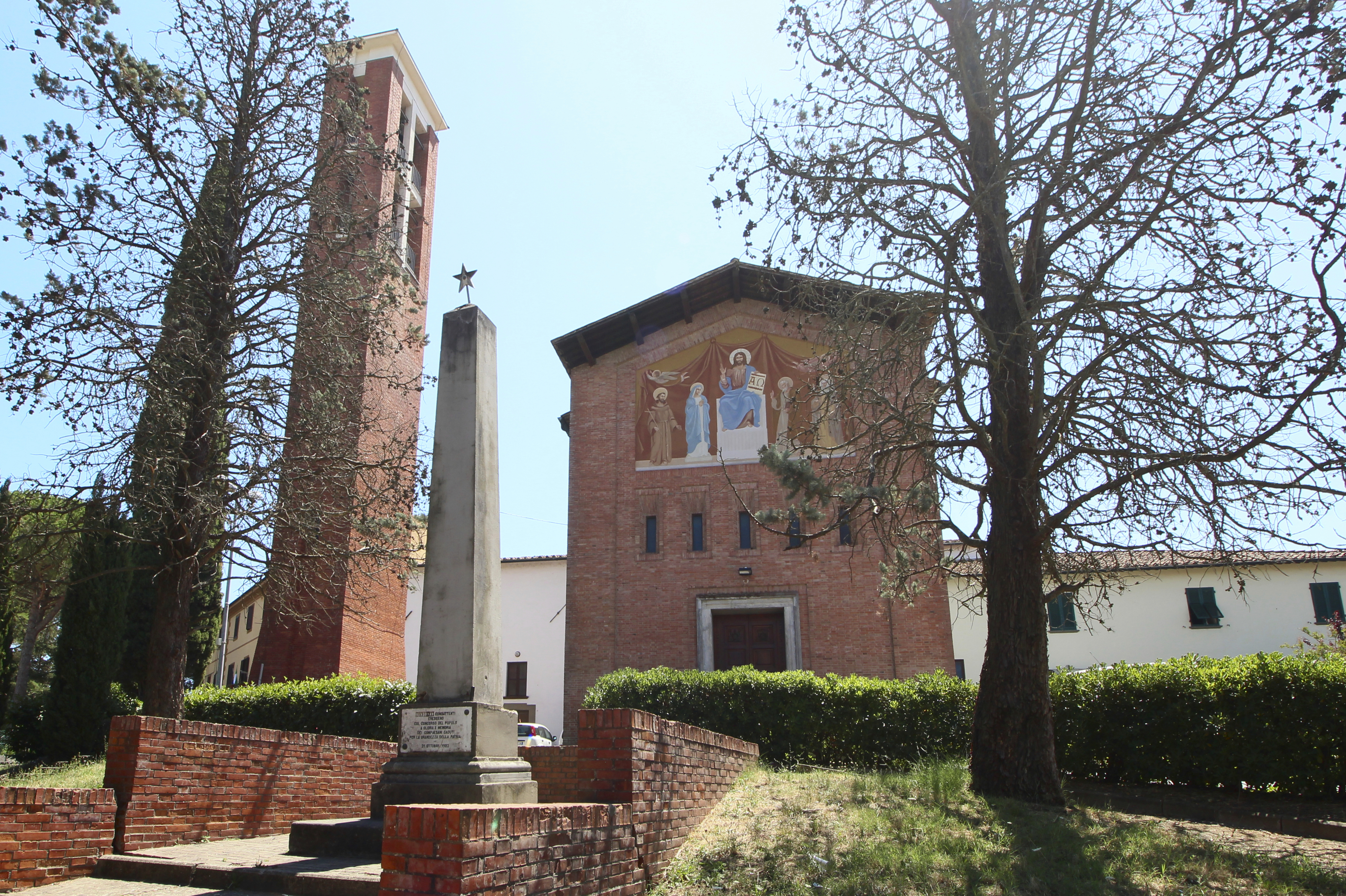 Church San Matteo, La Rotta, hamlet of Pontedera, Province of Pisa, Tuscany, Italy